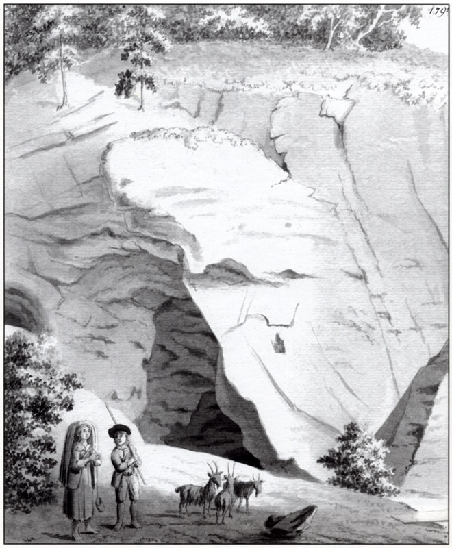 A drawing of Gutmanis cave in Latvia. By Johann Christoph Brotze From and “Zeichnungen und deren Beschreibungen”.